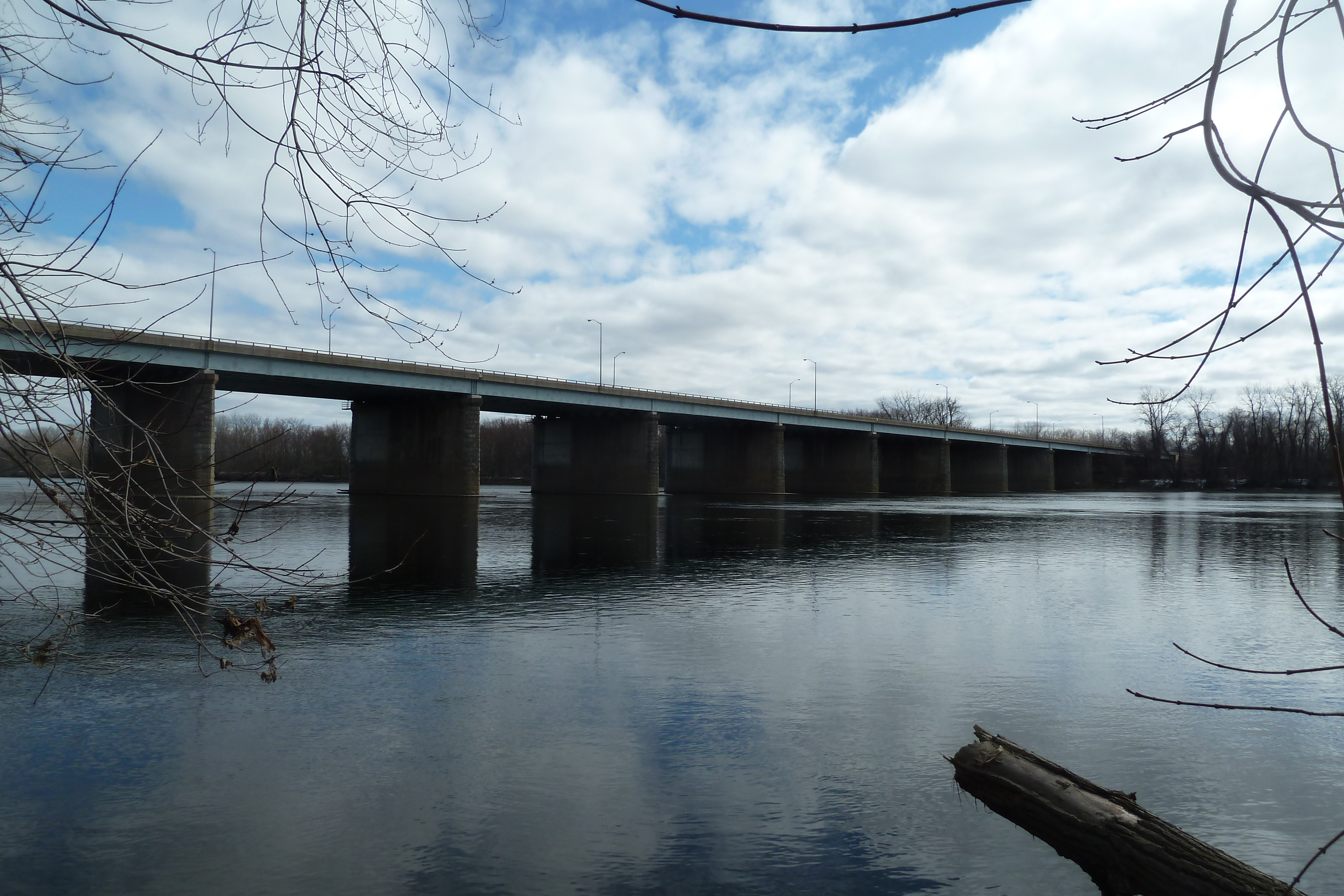 The Bissell Bridge carrying I-291 in Windsor, CT. Taken from the Windsor Meadows State Park lot